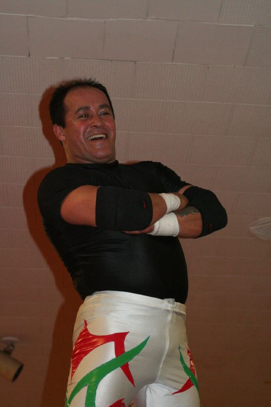 Professional wrestler Skyade (real name Jorge Rivera Serrano) at a Chikara show on May 21, 2008.